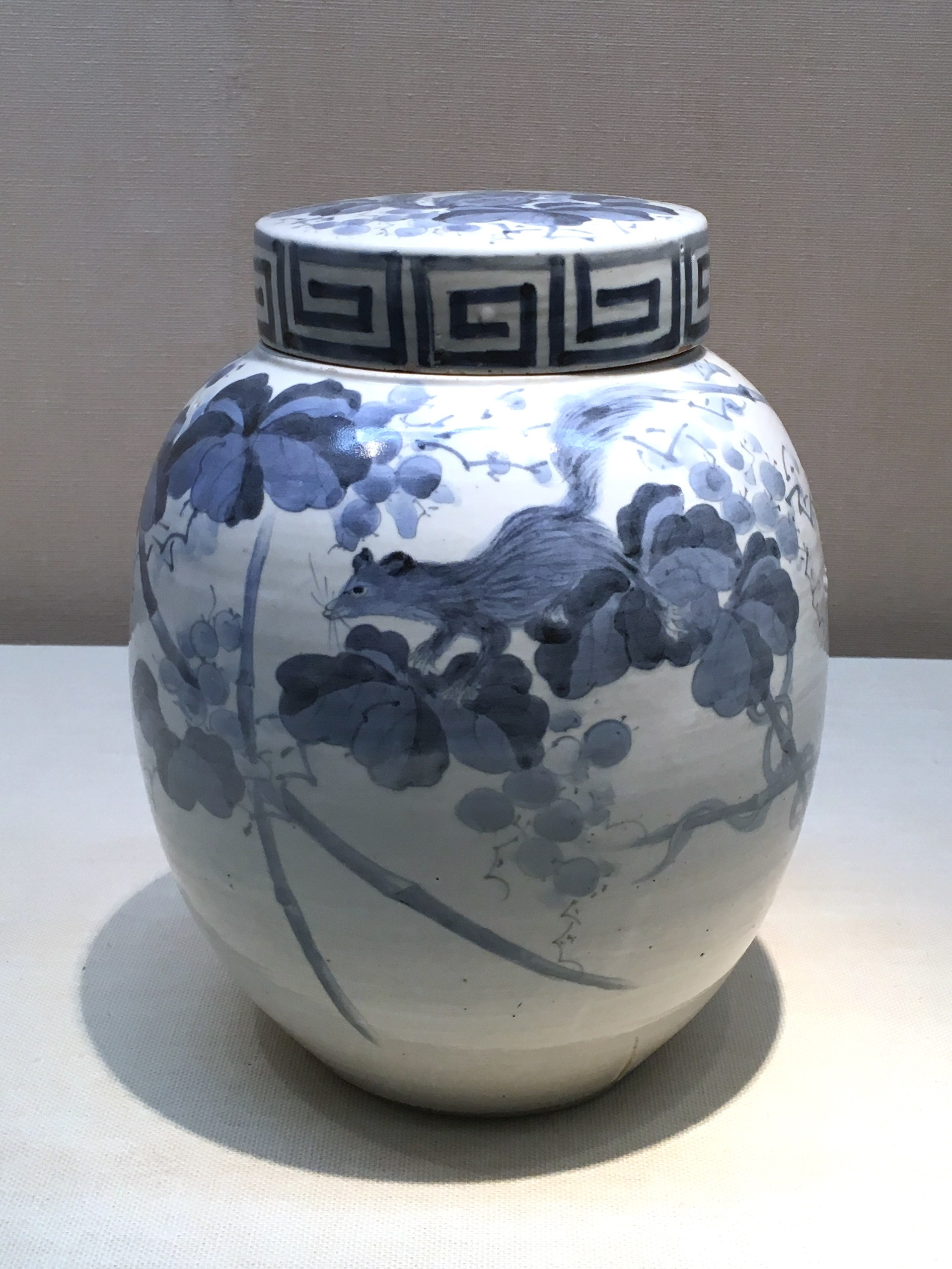 Covered jar, grape and squirrel design, blue underglaze. Tobe ware. Edo period, 19th century. Height: 24.8 cm Mouth Diameter: 10.1 cm Diameter: 20.1 cm Other: 10.9 cm (bottom diameter)